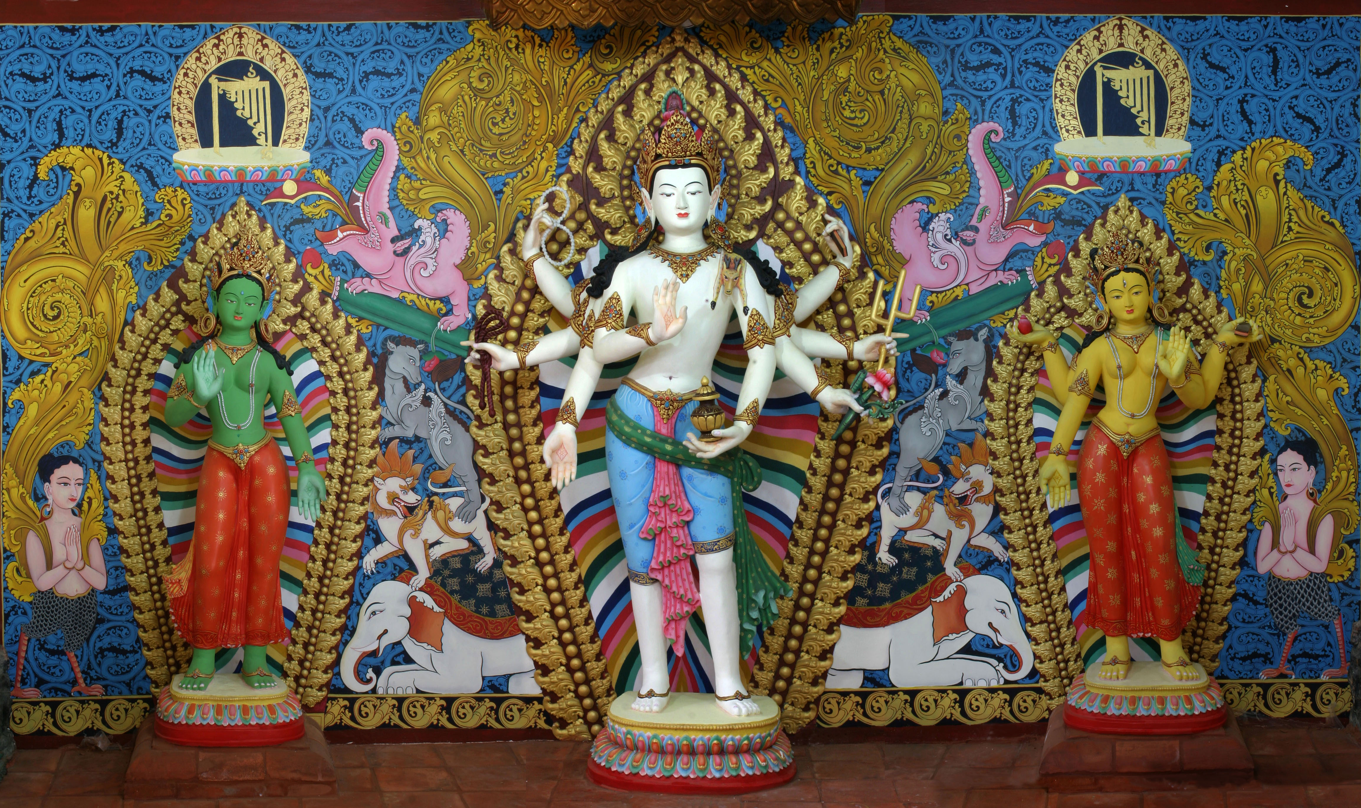 Amoghpasha lokeshvara images in Guitabahi